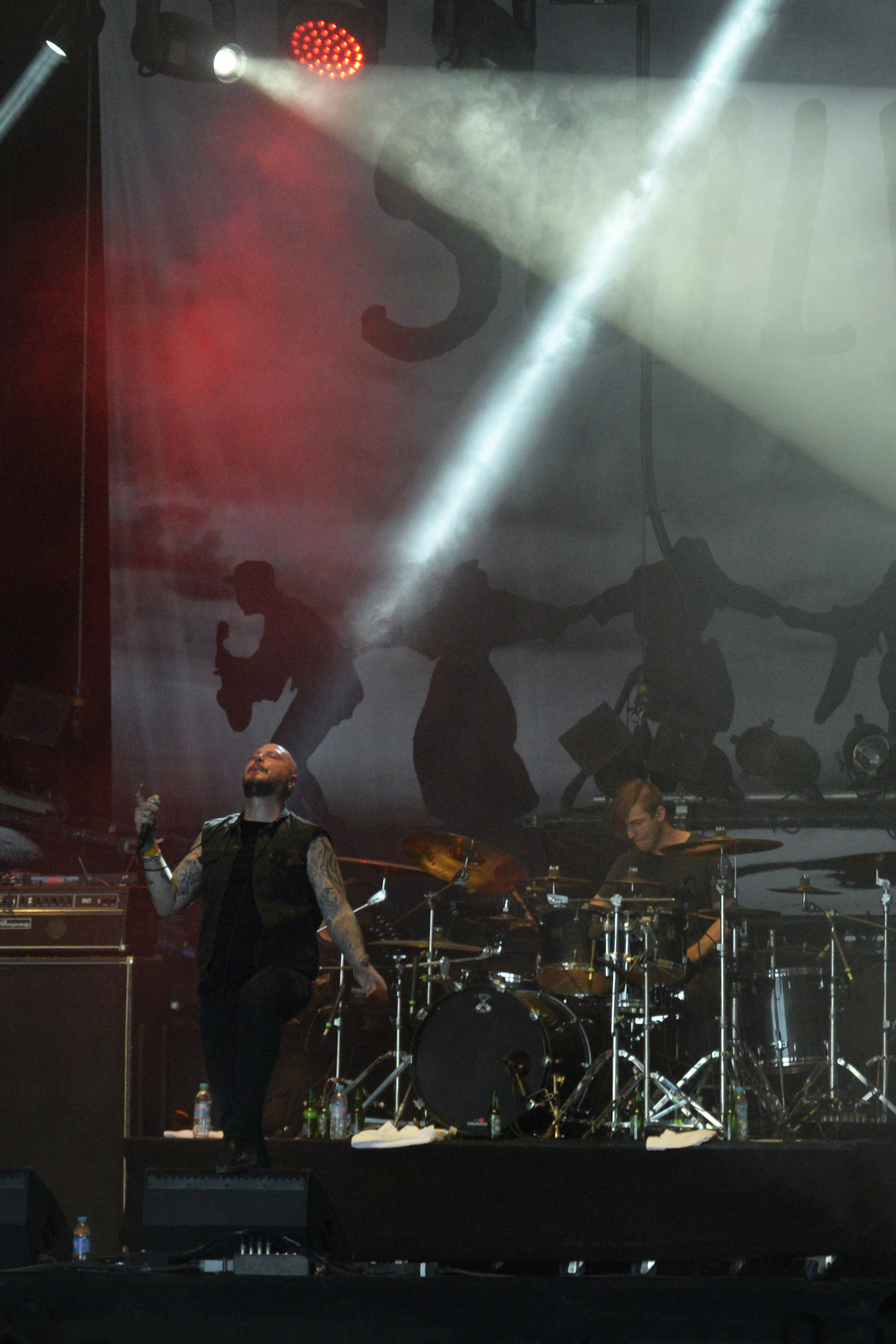 Soilwork show at 2017 Hellfest, France.